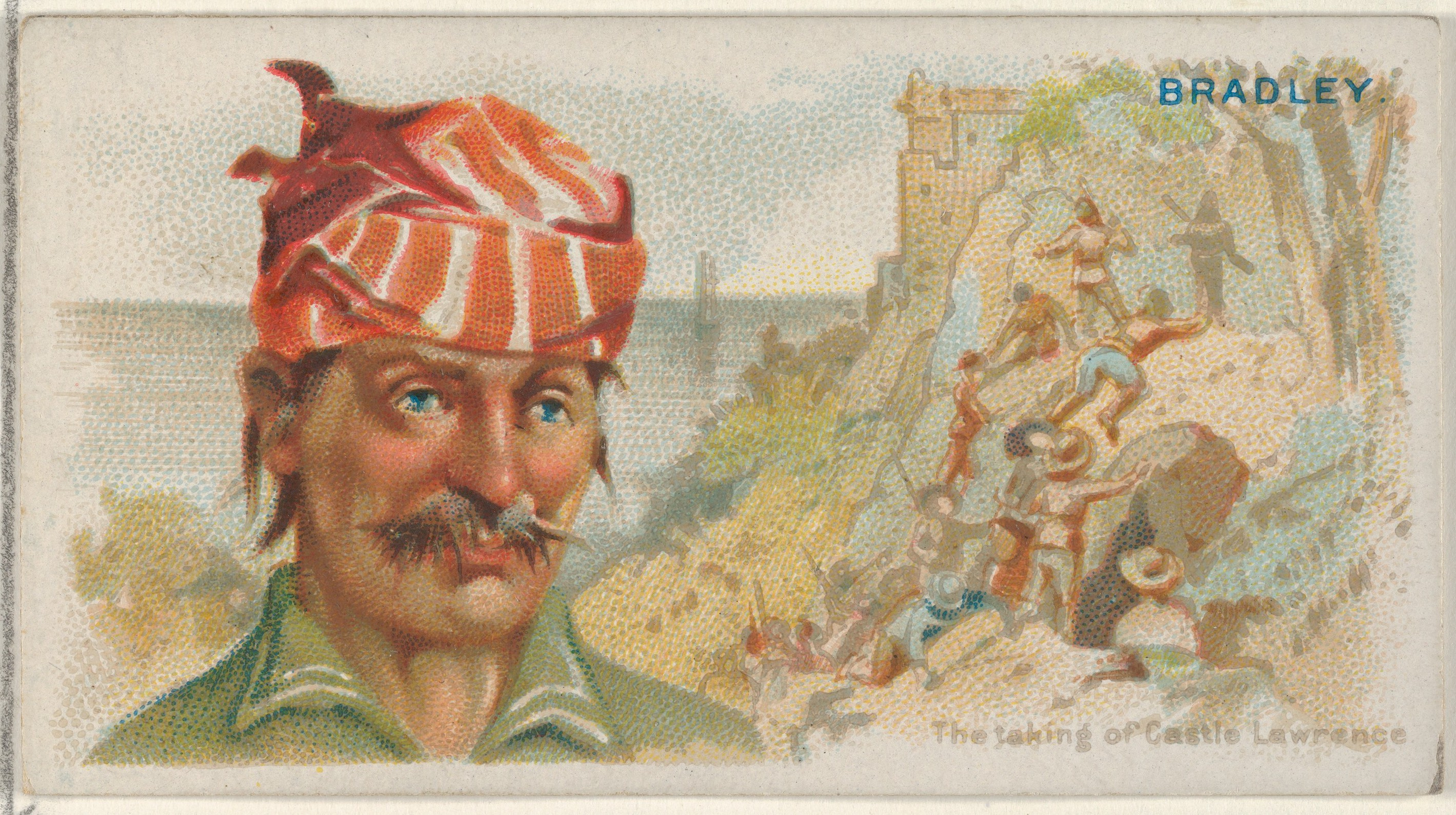 Print; Prints